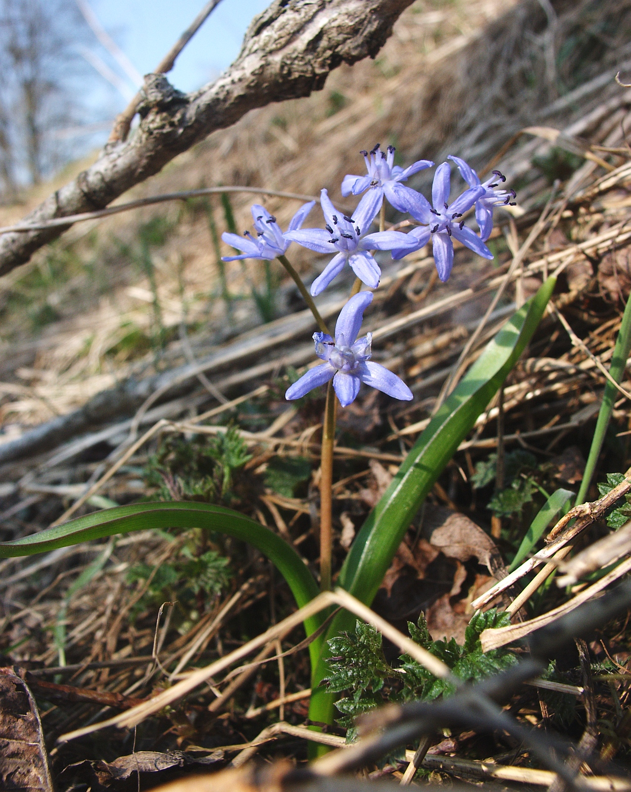 Scilla bifolia, Hohenloher Land, Germany